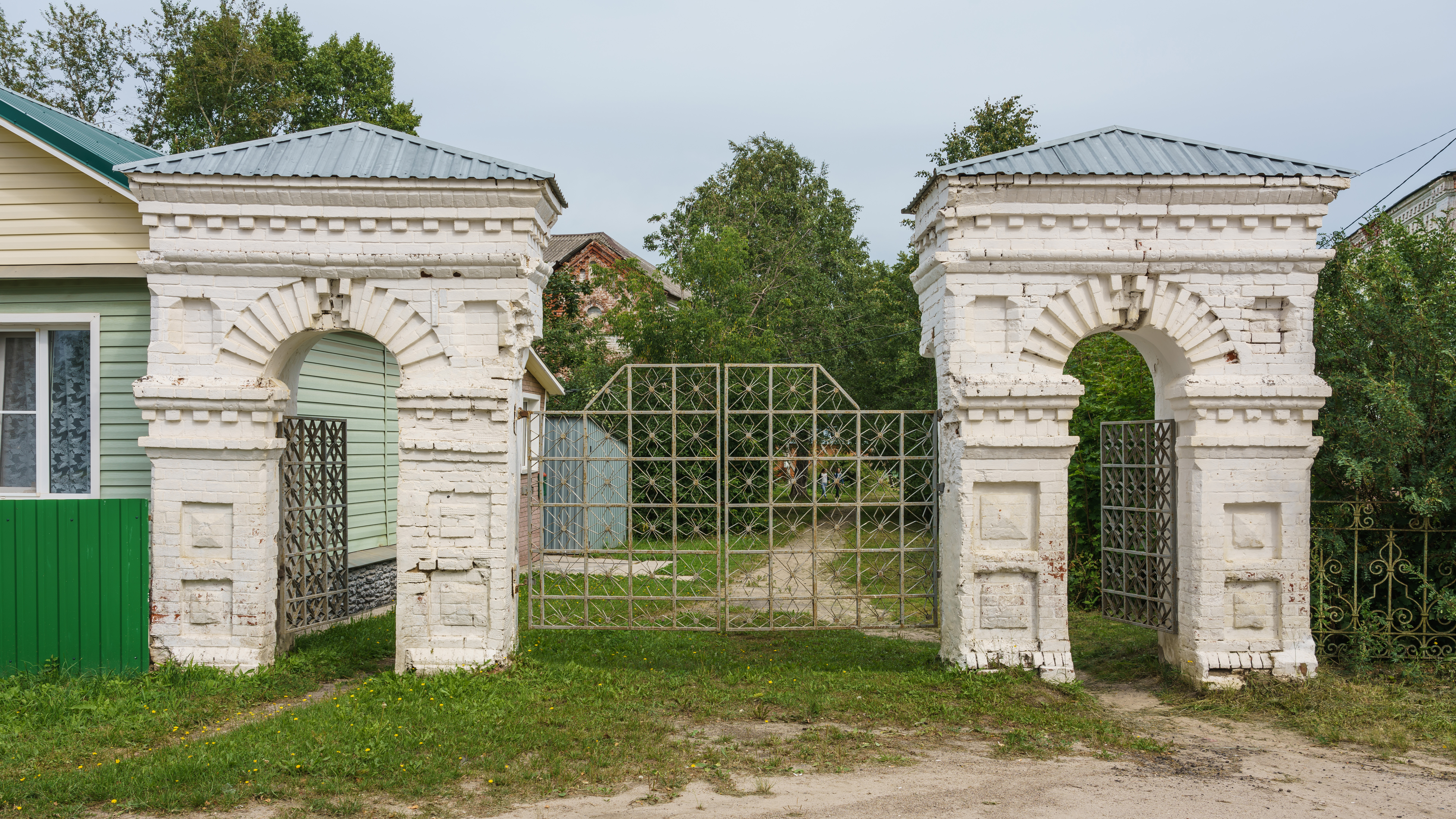 Former seminary in Khrenovo, Ivanovo Oblast, Russia.